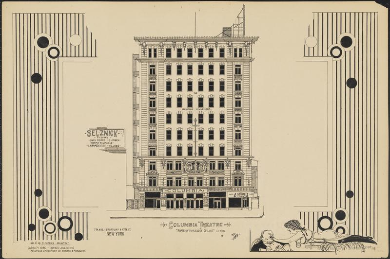 The Columbia Theatre in 1920 by Anthony F. Dumas. "Home of Burlesque De Luxe." N.Y. Times. 7th Ave. - Broadway & 47th St. New York. Wm. H. McElfatrick - Architect. Capacity 1385 - Opened Jan. 10, 1910. Columbia Amusement Co. Owners & Managers.